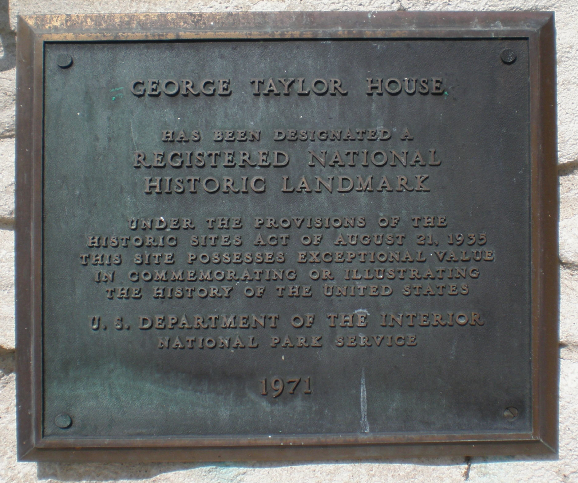 Plaque from George Taylor House, home of signer of Declaration of Independence